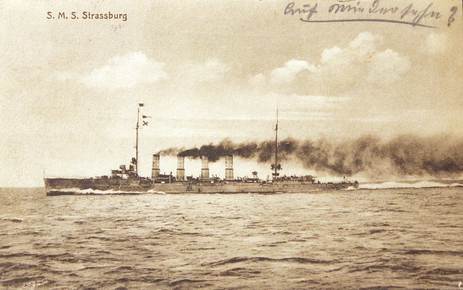 German light cruiser SMS Strassburg underway